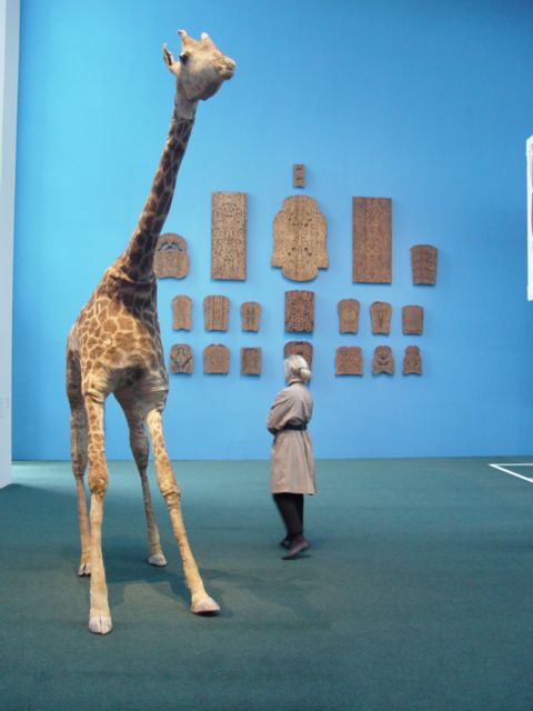 documenta